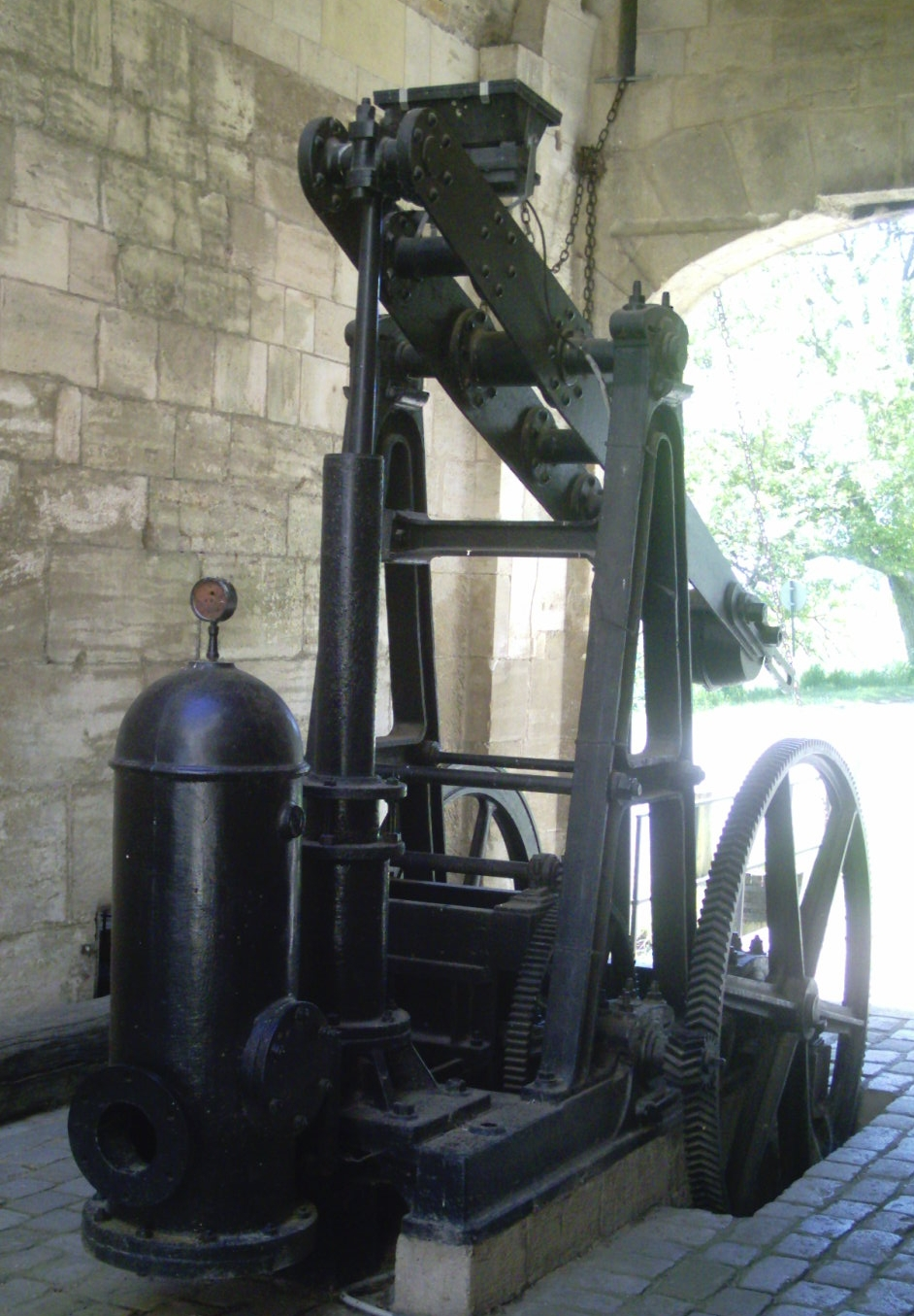 Old pump used for salt extraction, exposed in Porte de France of Marsal, Moselle, France